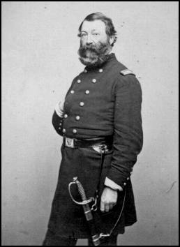 Photograph of John Cochrane, who died in 1898.